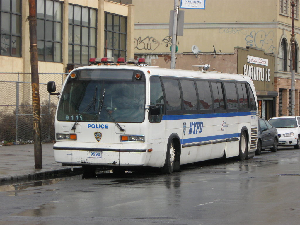 NYC Police Department bus #9598 (ex-NYC Transit 8400) sits outside the Stillwell Avenue-Coney Island subway station, presumably assigned to the NYPD Transit Bureau station inside.